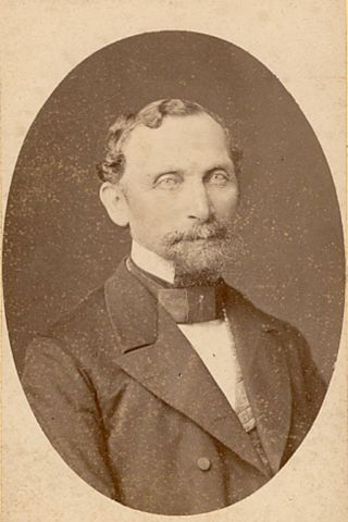 George Friedrich Dithmer, founder of Klostermosegaard Brickworks in Helsingør, Denmark